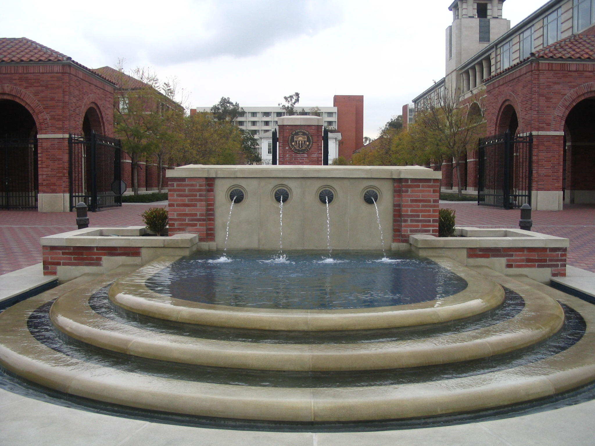 Fountain at the main entrance of University of Southern California. Located on Exposition Blvd. A user photo.